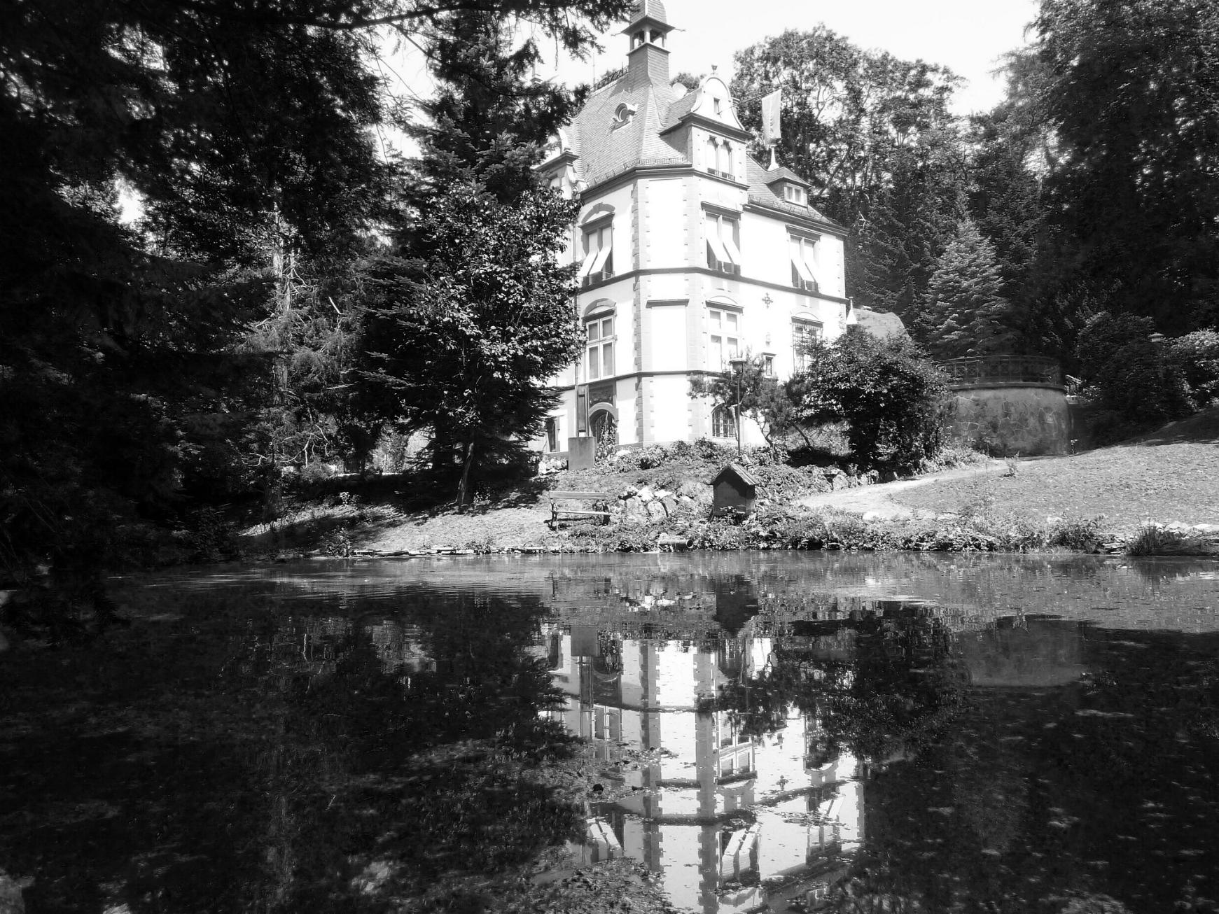 Reflection of the manor house built in german Neorenaissance style in the pond of the park (historism) of Villa Haas.